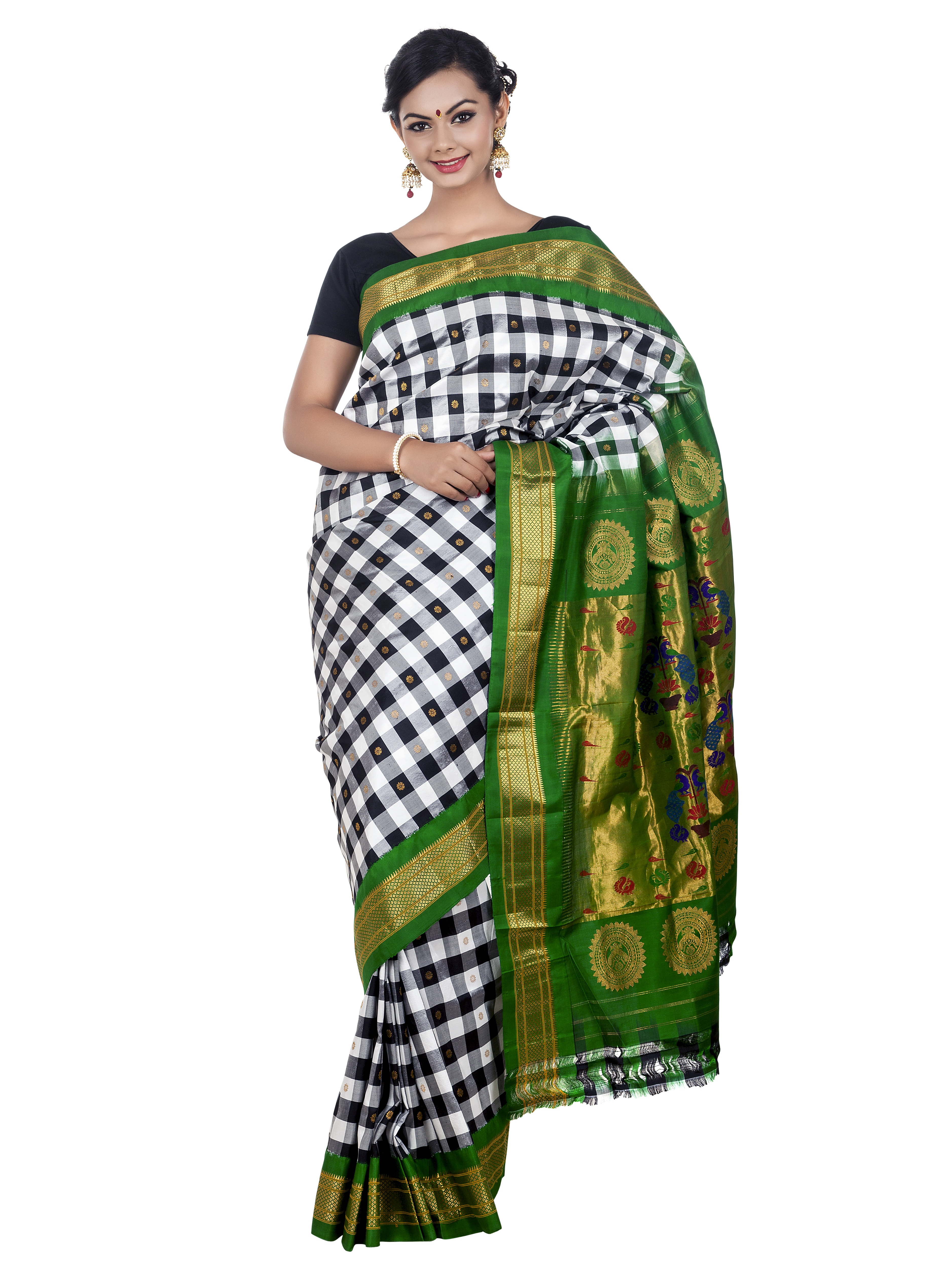 Woman posing with a green, white, and black sari.